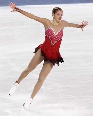 Carolina Kostner at the 2010 European Figure Skating Championships.